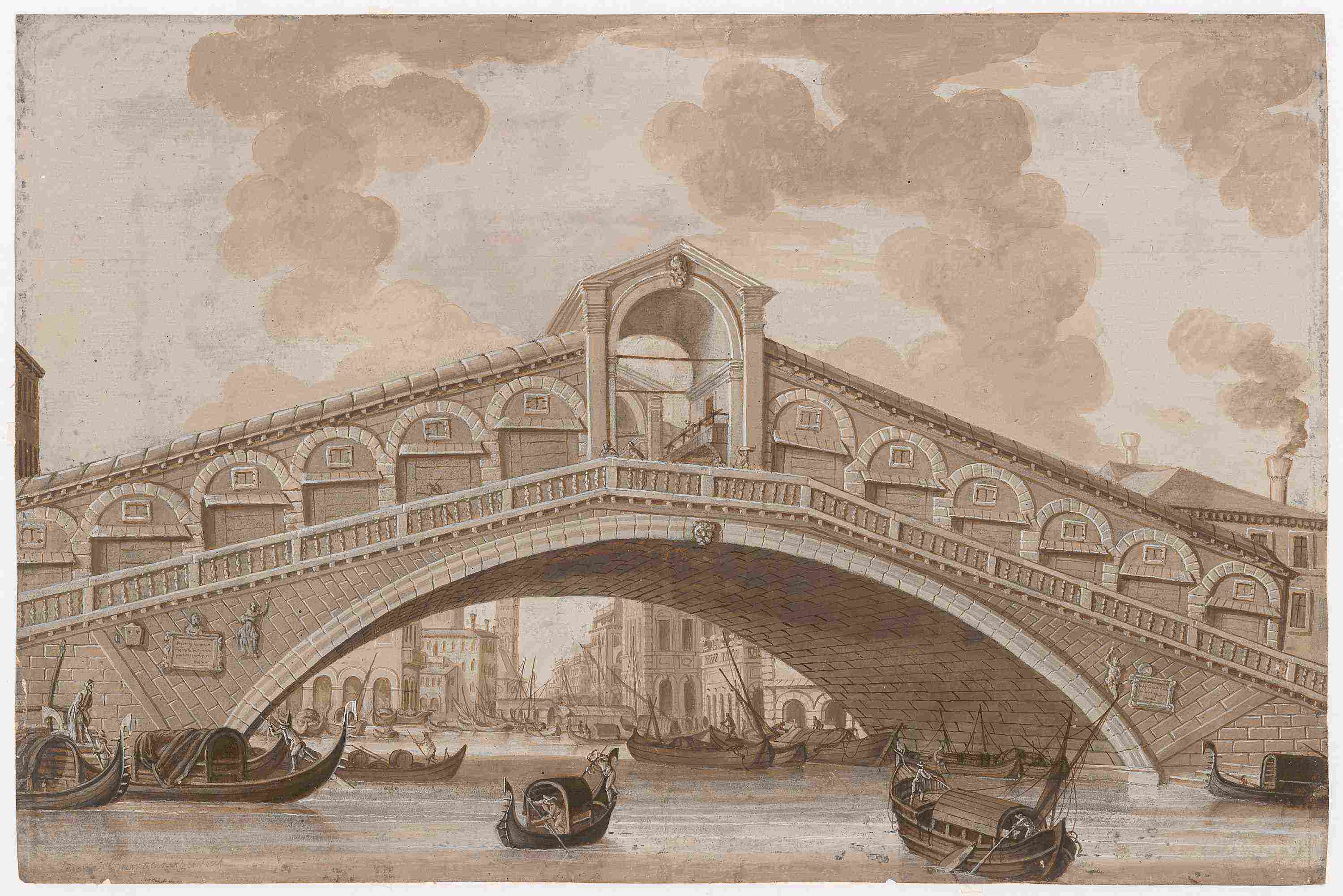 View of the Rialto Bridge in Venice. Underneath, on the left, Pantalone stands on a footbridge, looking at the Canal Grande.